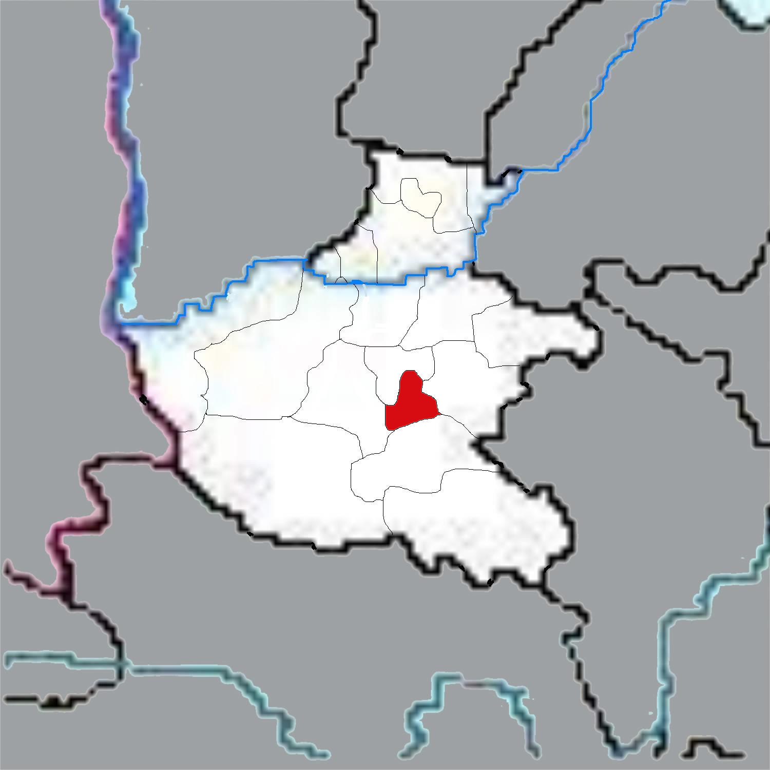 Maps of Henan Province of China